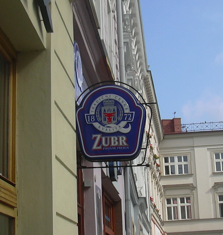 Logo of Czech beer Zubr